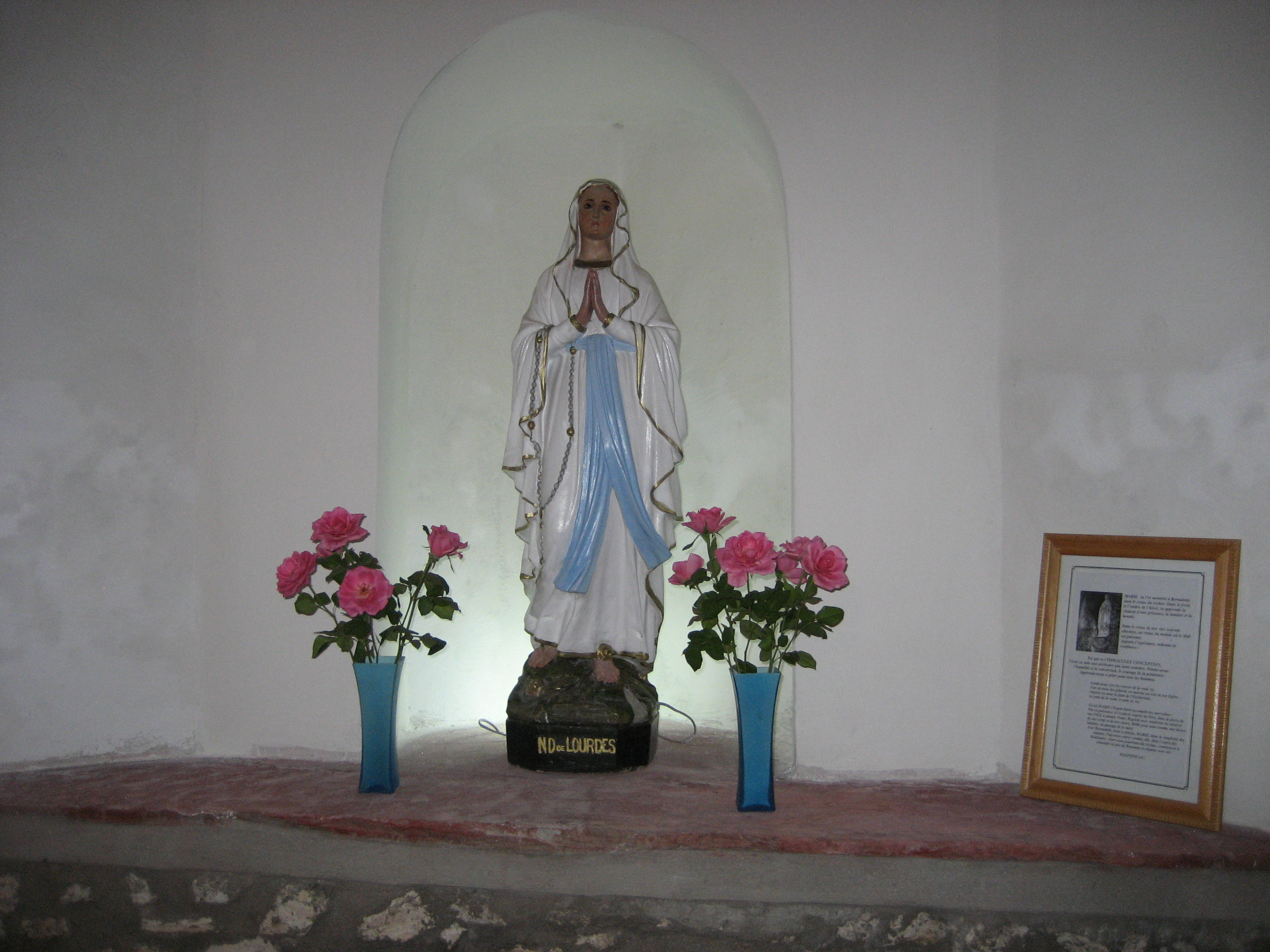 Notre Dame de Lourdes (Virgin Mary) in the Notre-Dame de l' Assomption in Essaouira (Morocco)